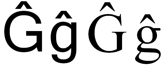 Latin_letter_Ĝĝ.